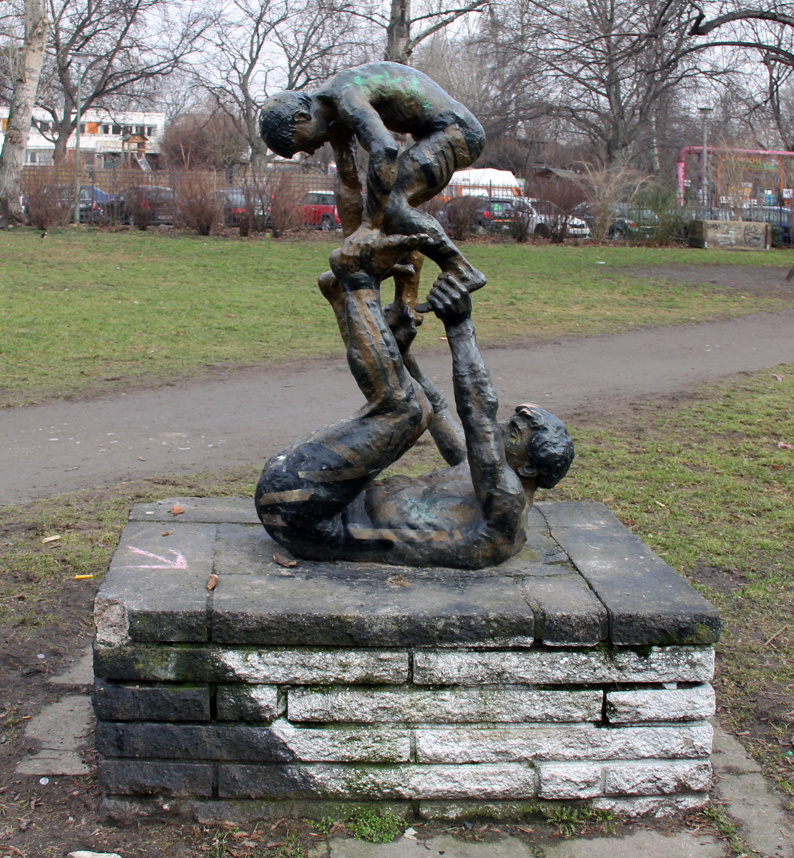 Sculpture, "Spielende" by Wilfried Fitzenreiter, 1975, Rudolfplatz, Berlin-Friedrichshain, Germany